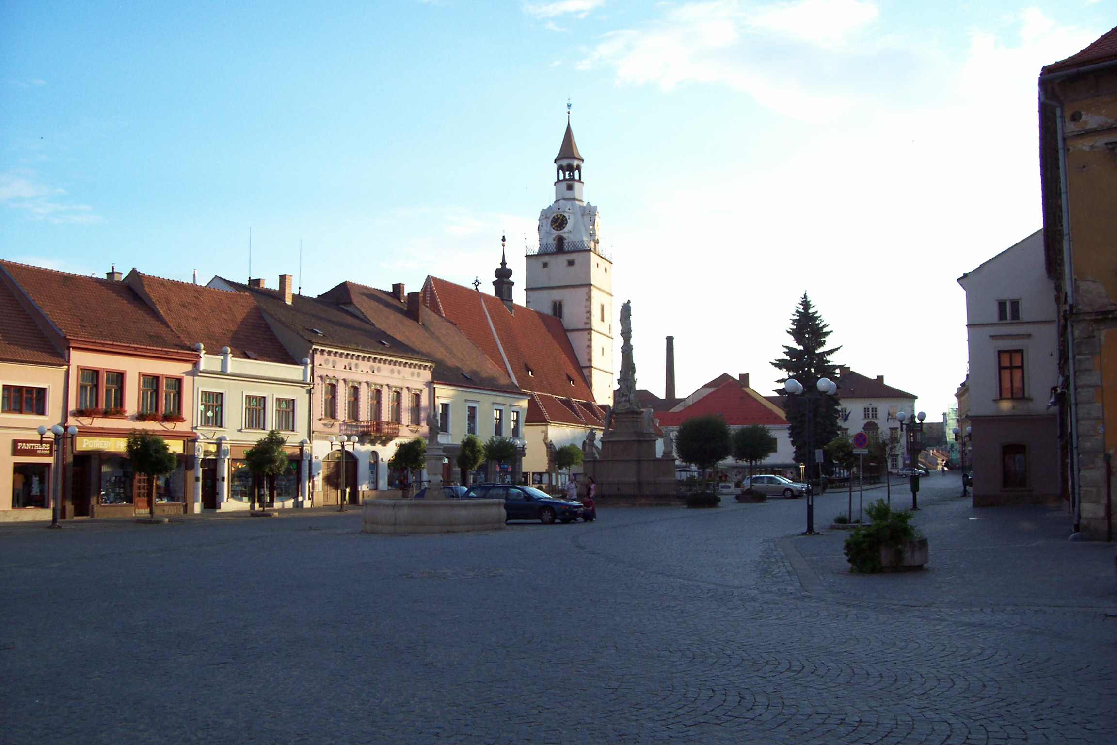 Ivančice, Czech Republic. Overall view of Palacký Square from east.